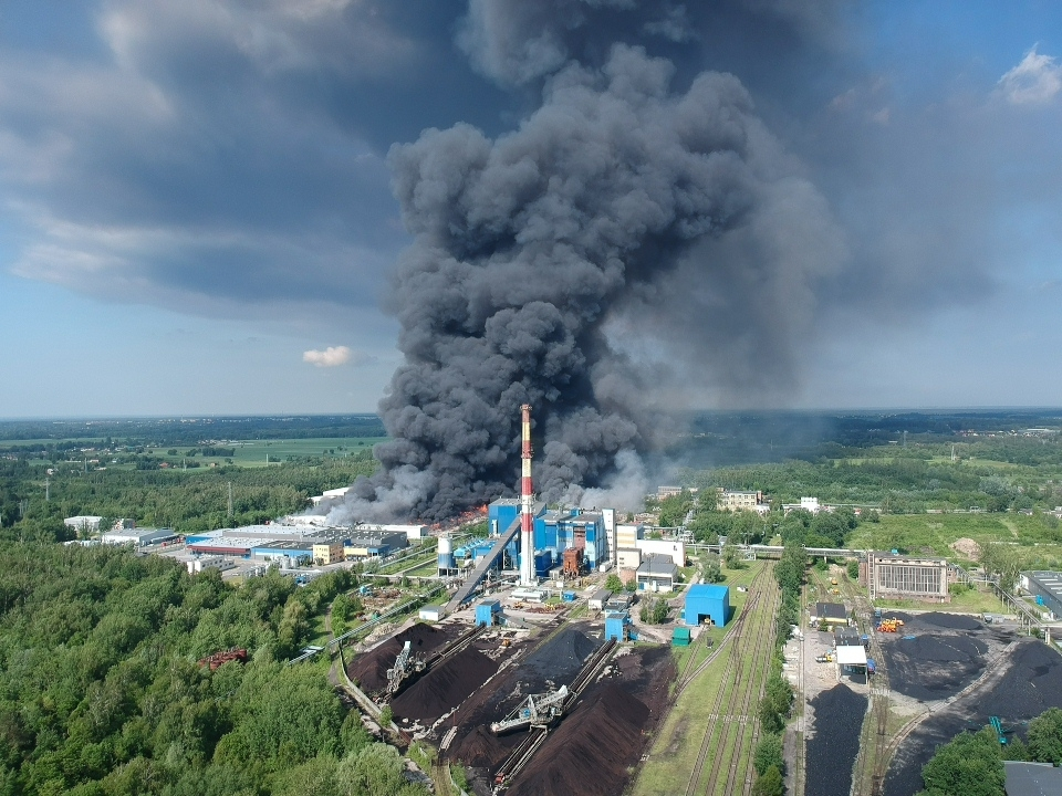 The landfill in Zgierz fire, May 2018